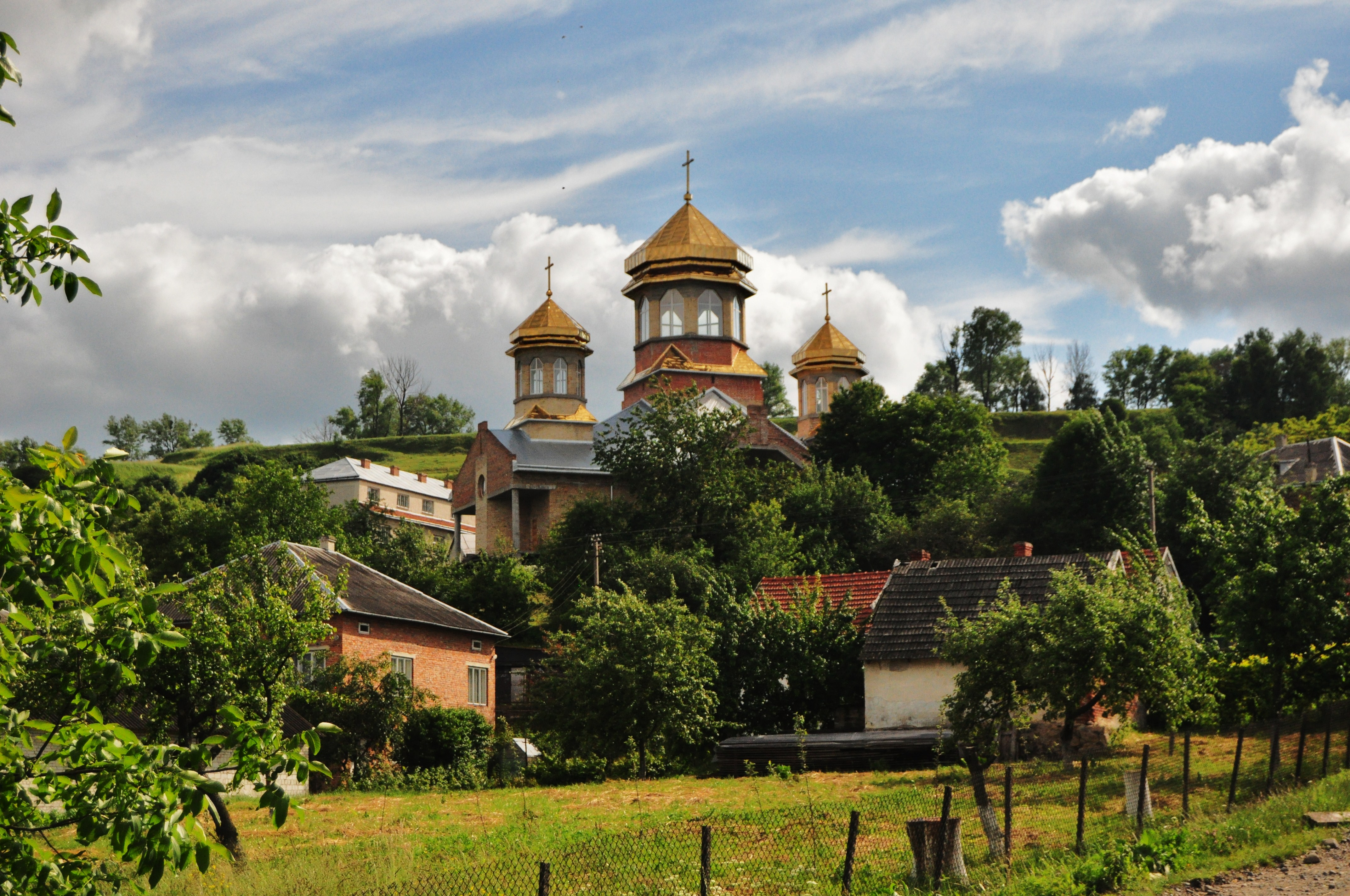 New Church in Vidnyky village, Pustomyty Raion Lviv Oblast